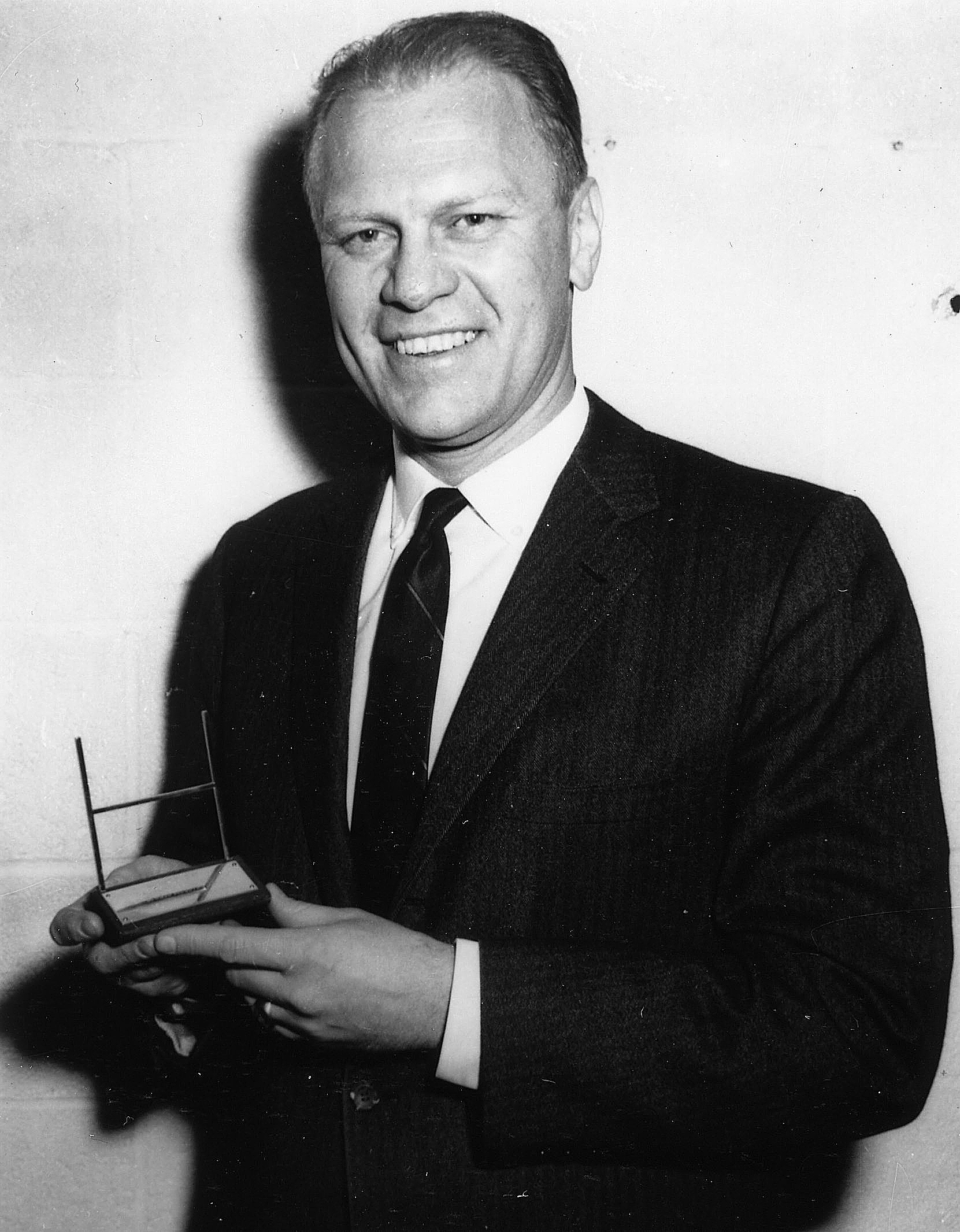 Representative Gerald R. Ford, Jr., poses with his Sports Illustrated Silver Anniversary Award. December 21, 1959.